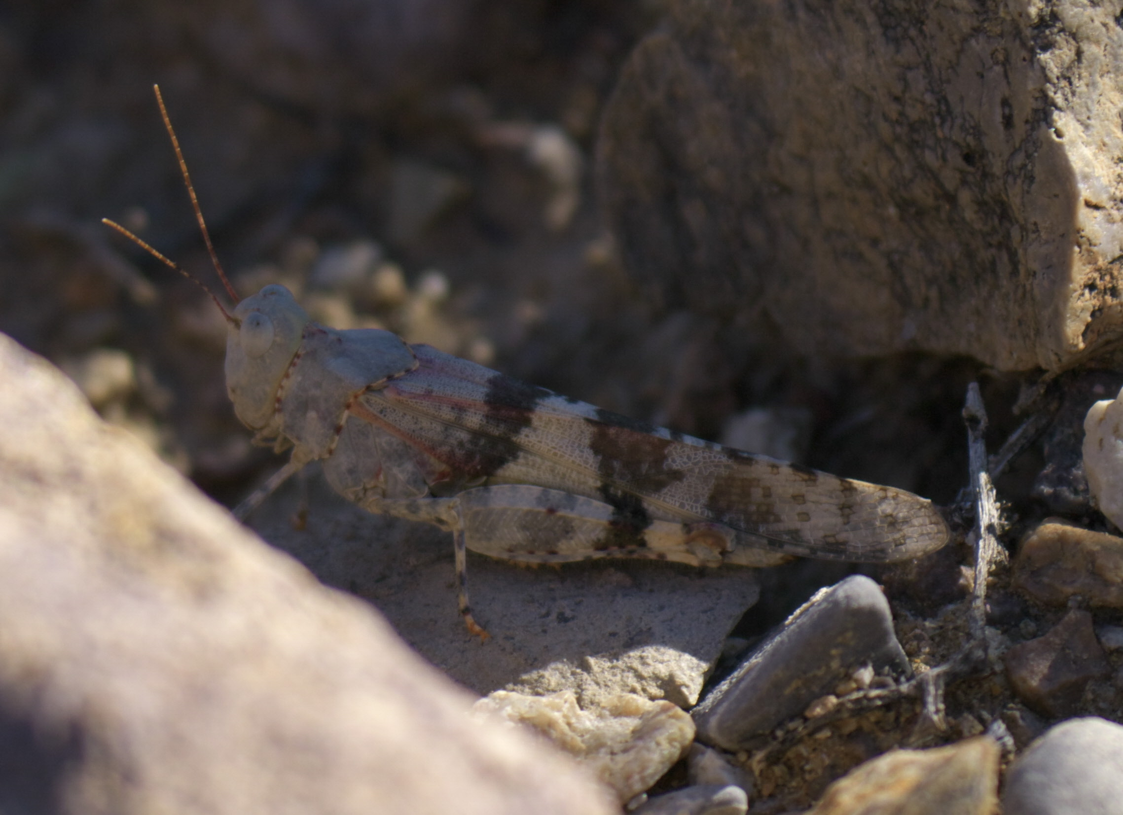 Trimerotropis californica, Strenuous Grasshopper, ID Confidence: 98